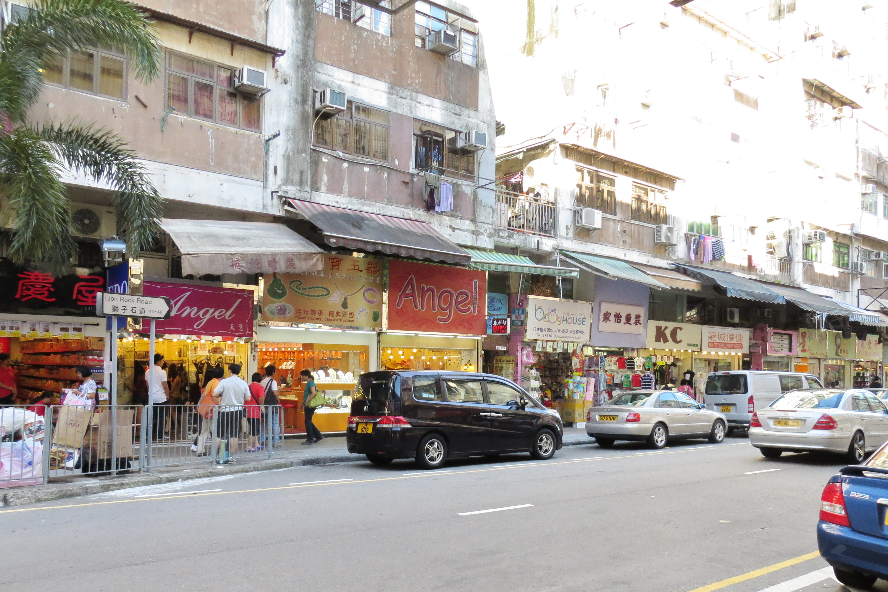 Lion Rock Road, Kowloon, Hong Kong.